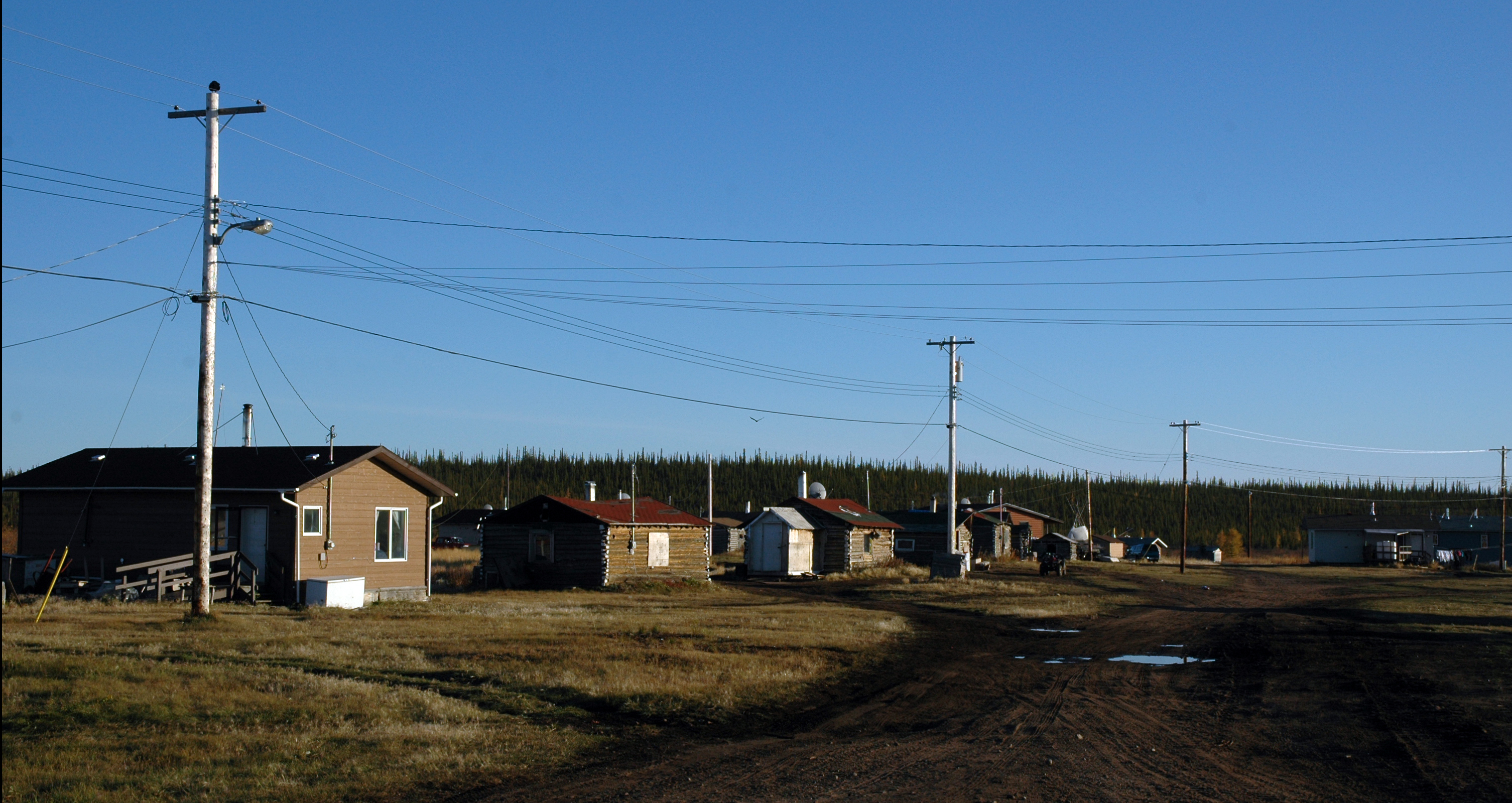 Colville Lake in the Northwest Territories, Canada